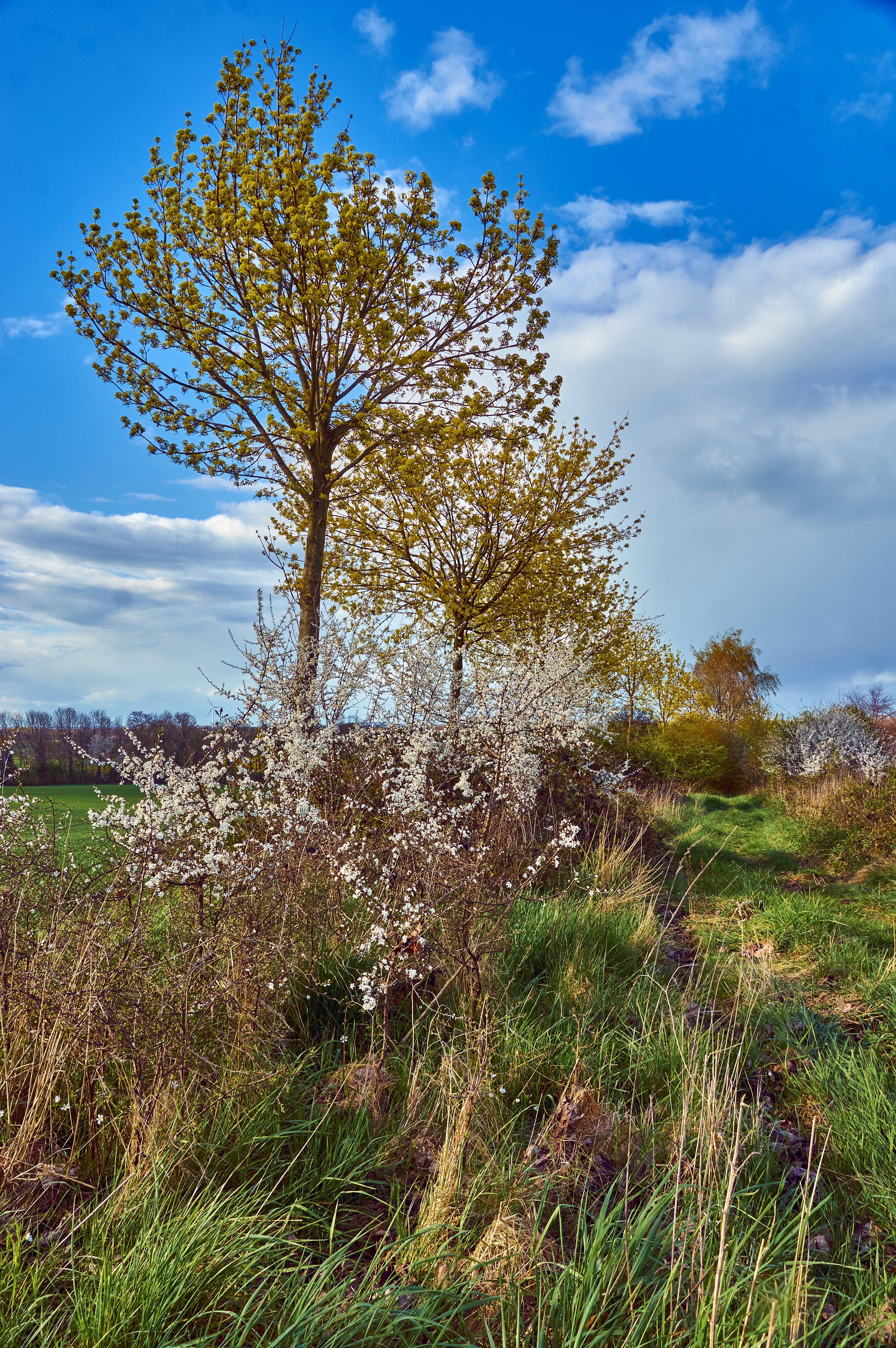 Agricultural road in Leer, Horstmar, North Rhine-Westphalia, Germany.